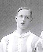 Finnish international footballer Lauri Tanner. Cropped from File:HJK_champions_1911.png